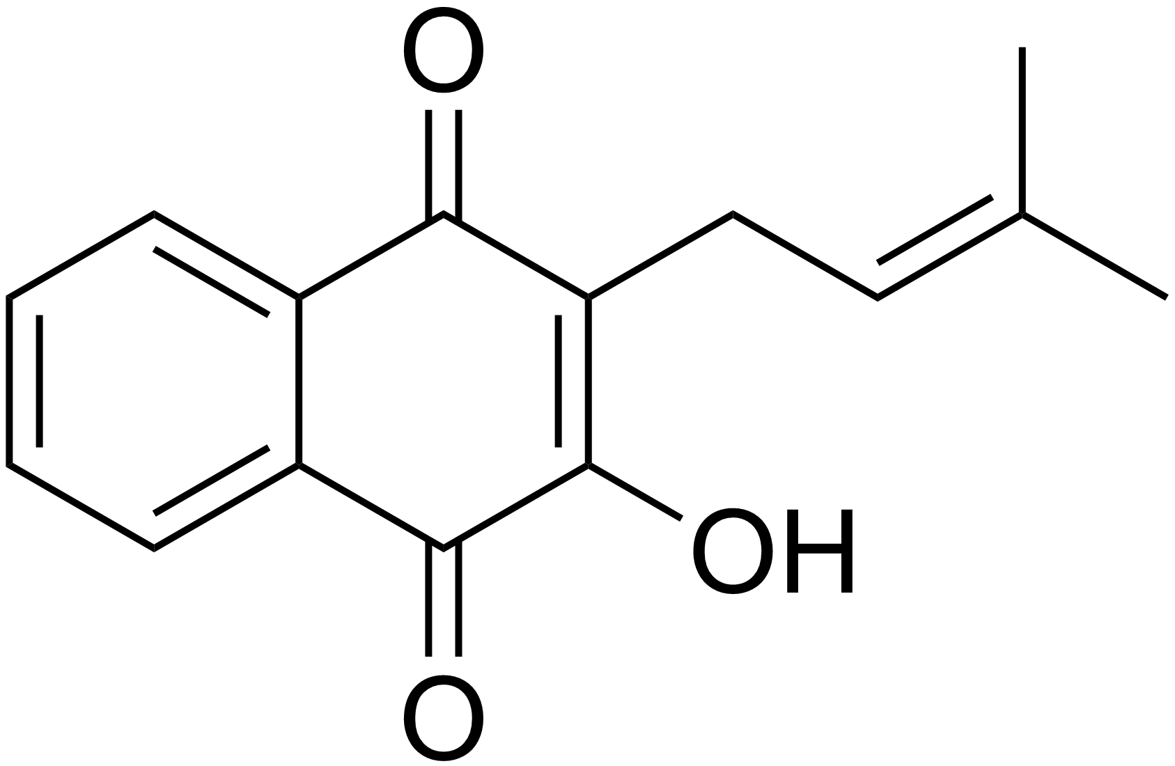 Chemical structure of lapachol